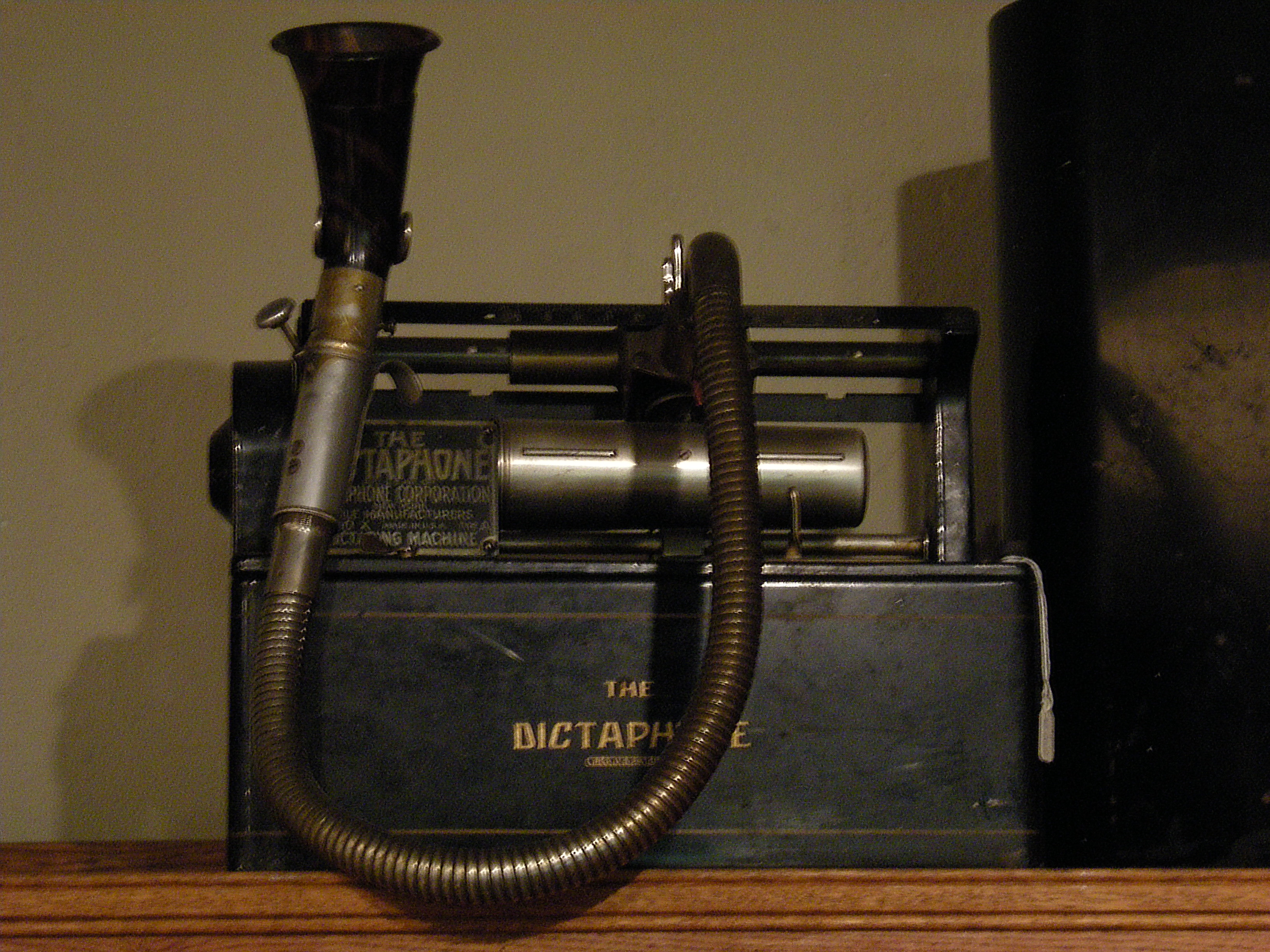 Dictaphone wax cylinder dictation machine, c. 1910, Edmonds Historical Museum, Edmonds, Washington.